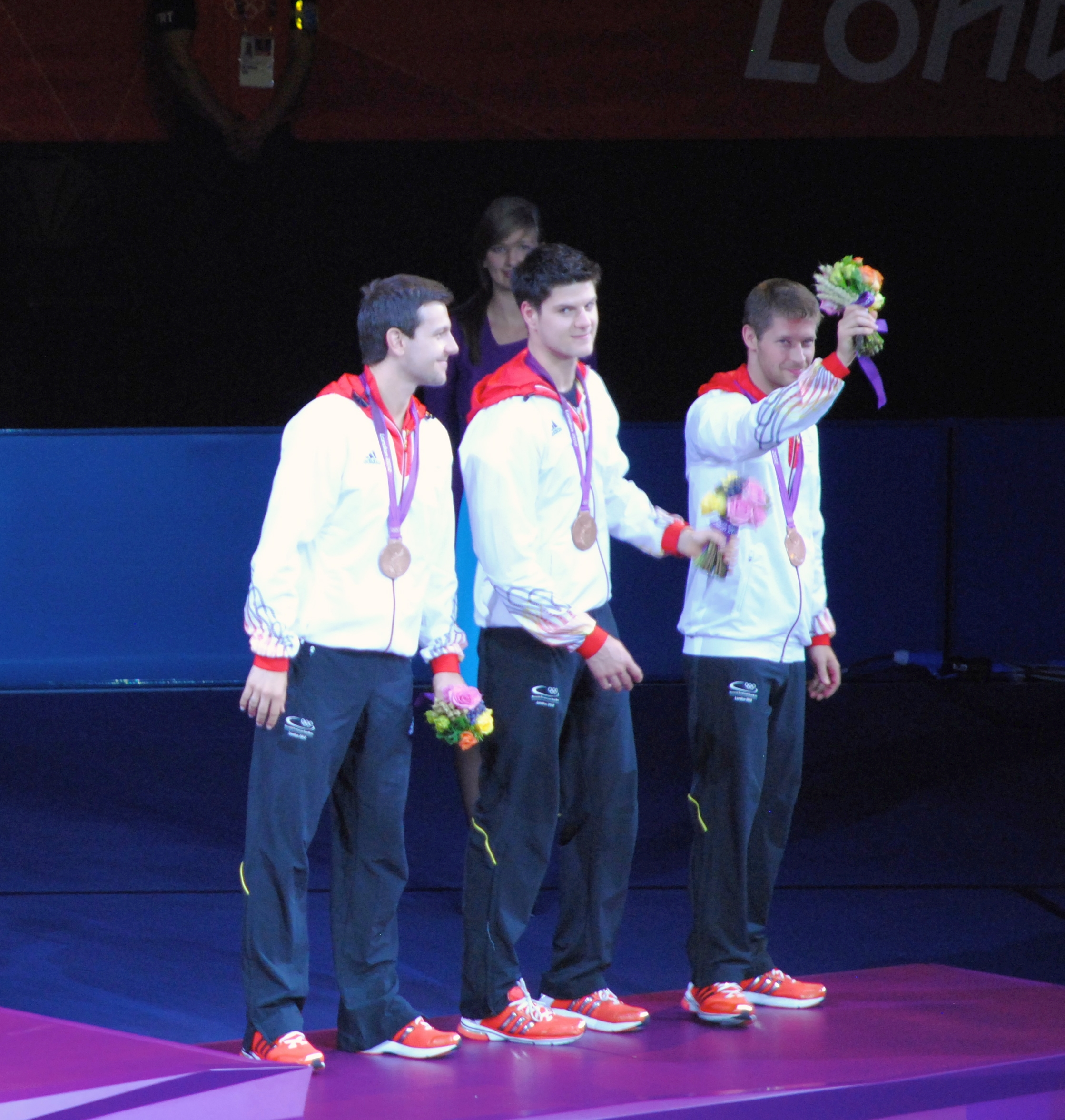 Bronze Medalists - Germany (Timo Boll, Dimitrij Ovtcharov, Bastian Steger)